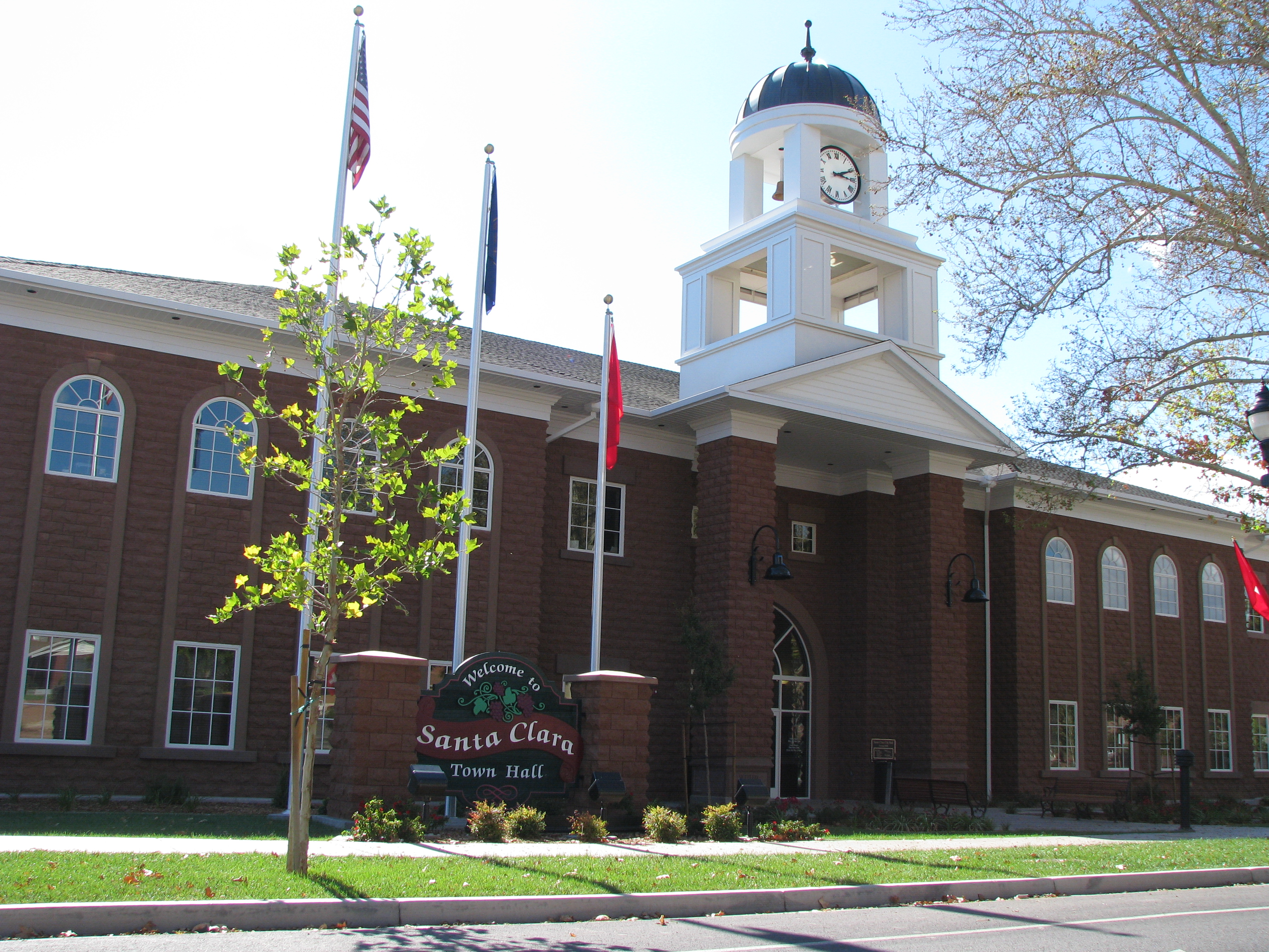 Town Hall of Santa Clara, Utah